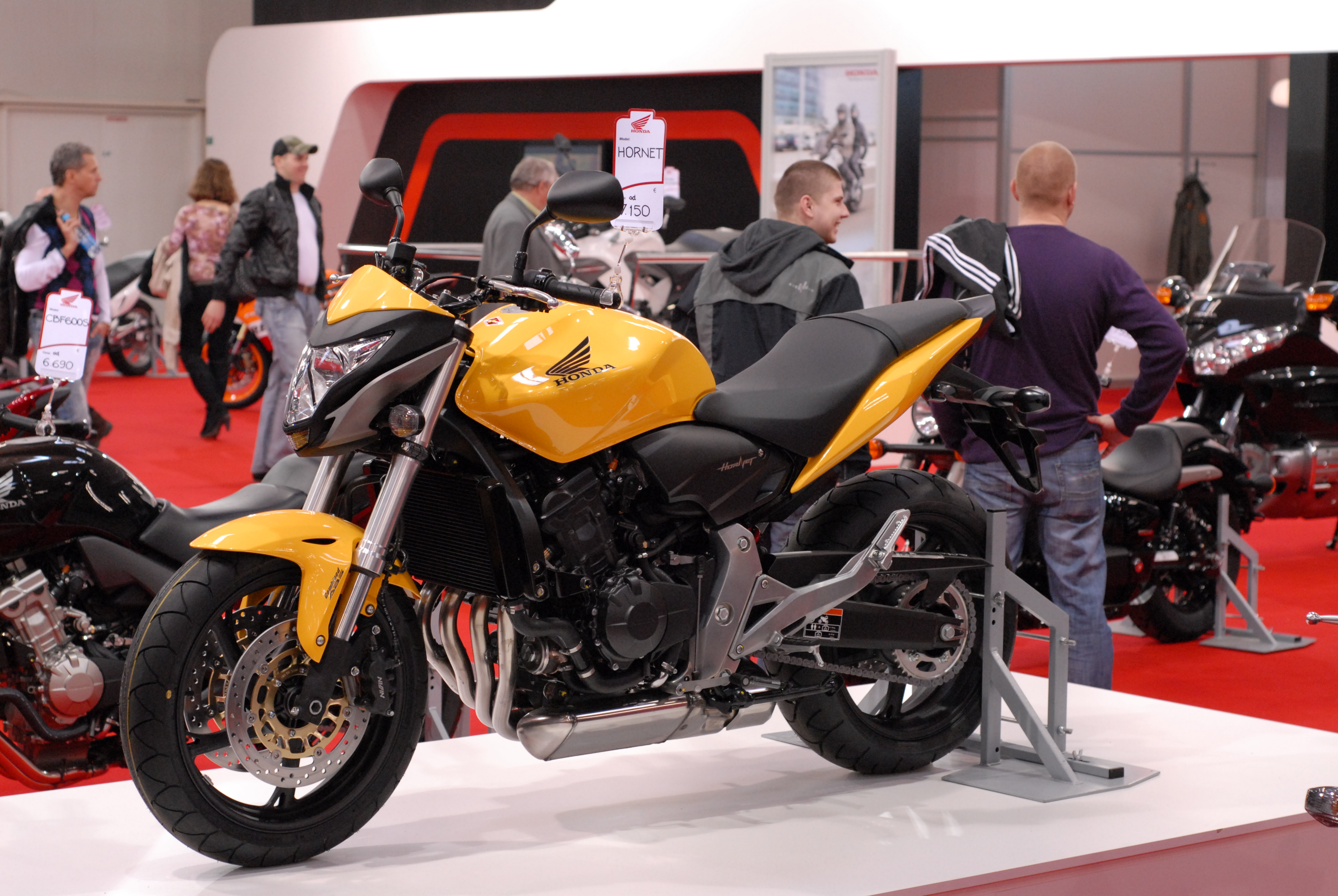 Honda CB600F Hornet, model year 2011. Taken at Motocykel 2011 expo in Bratislava, Slovakia.